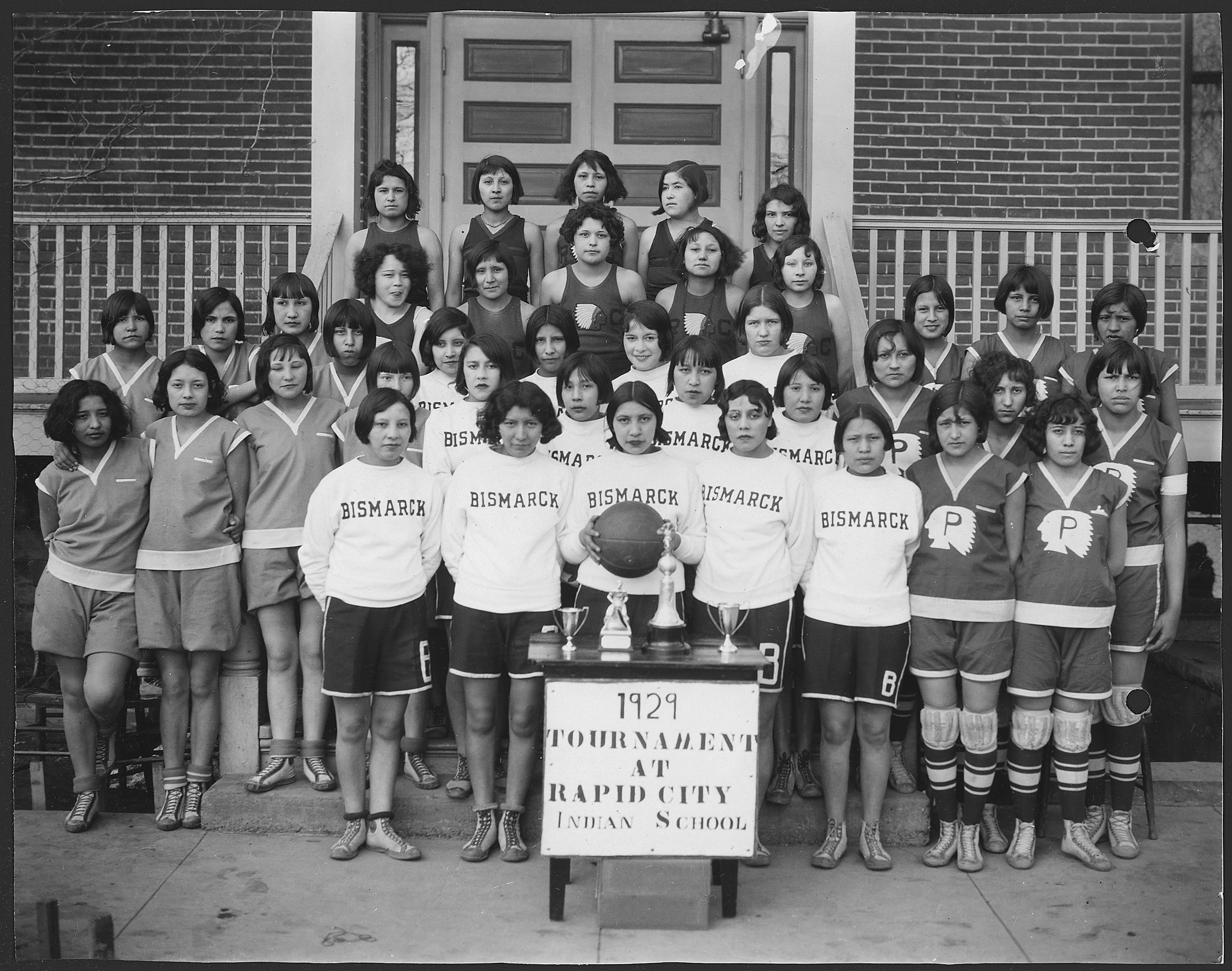 Scope and content: Formal group picture in front of Coolidge Hall. Several schools are represented.